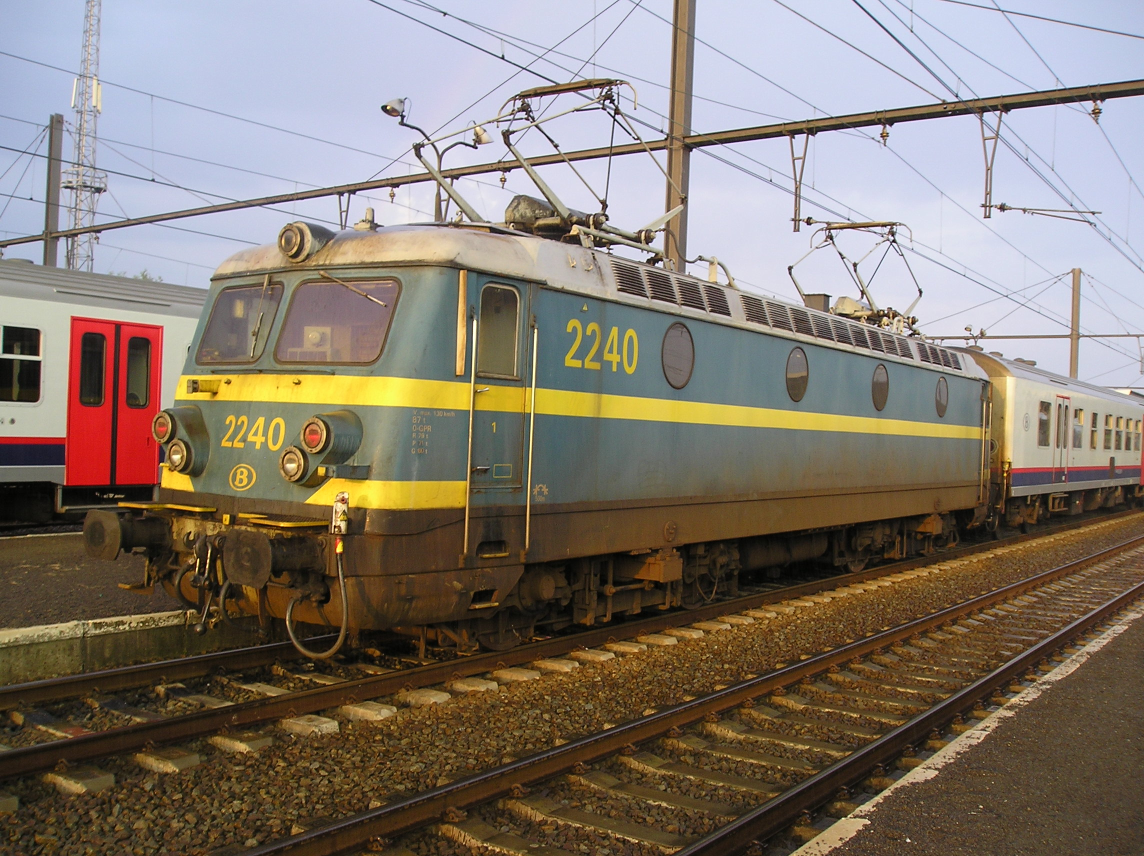 Electric locomotive No 2240 of the Belgian railways, Dendermonde train station. 22 stands for locomotive series and 40 for the number of this particular locomotive inside the series.